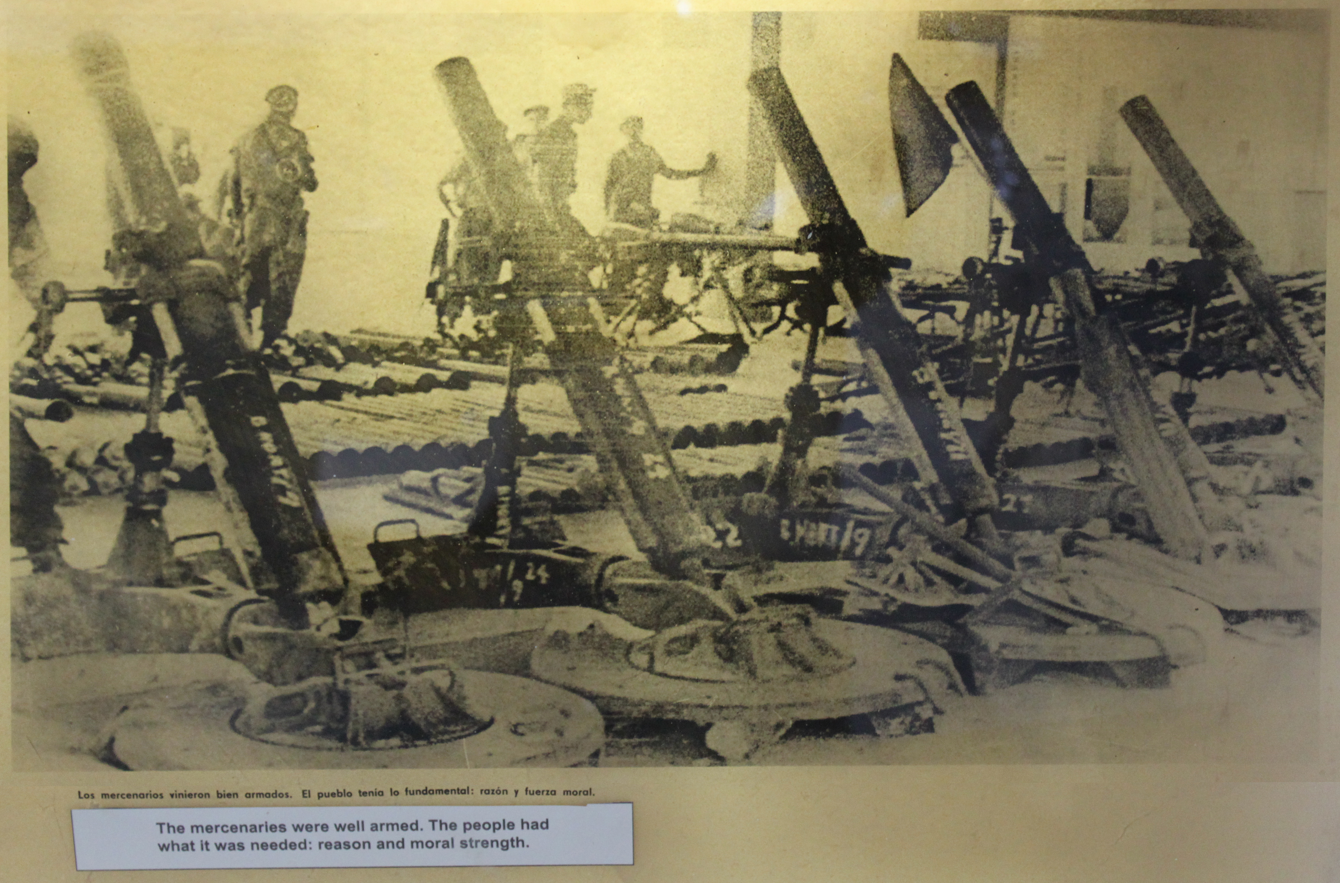 Museo Girón (museum about the invasion in the Bay of Pigs): weapons of the exile cubanian mercenaries